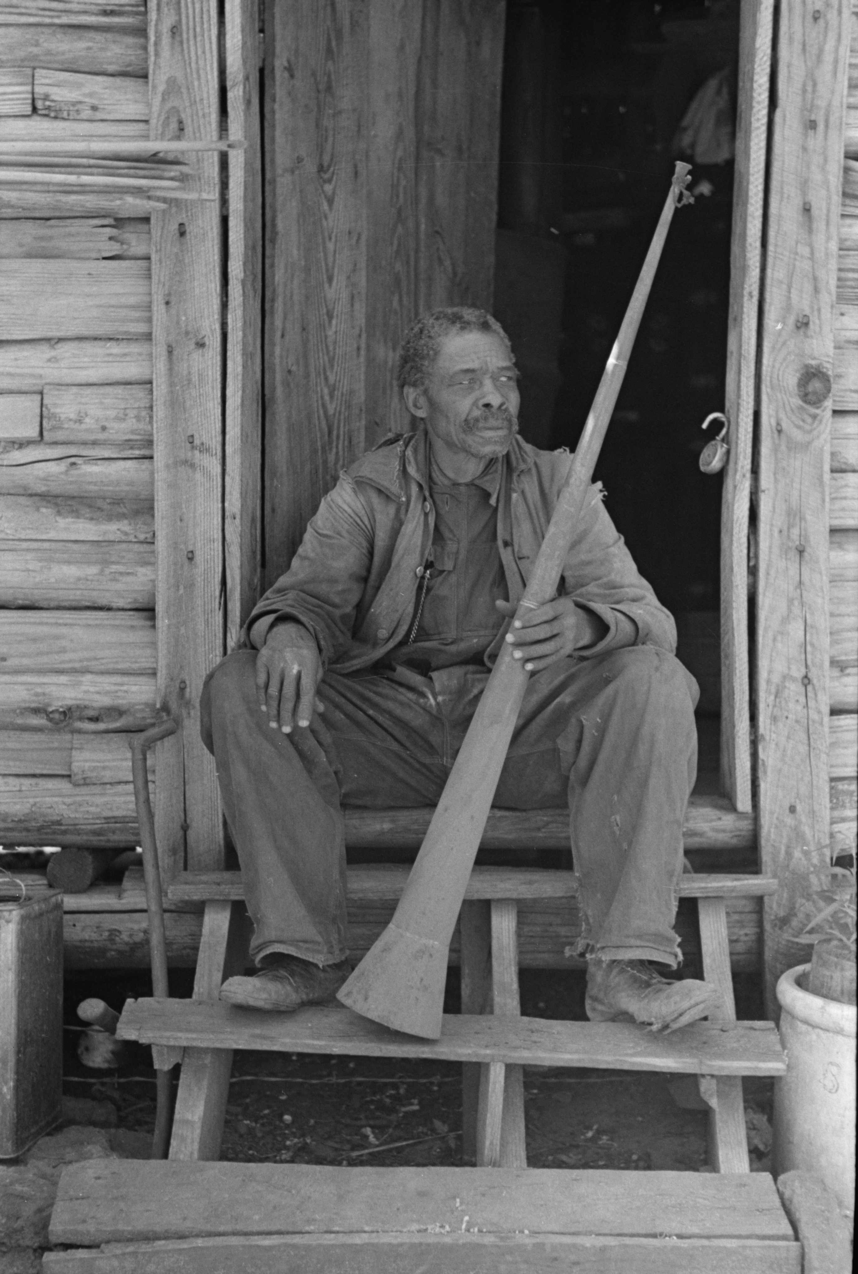 Old Negro (former slave) with horn with which slaves were called. Near Marshall, Texas. Russell Lee 1903-1986 photographer. CREATED/PUBLISHED April, 1939